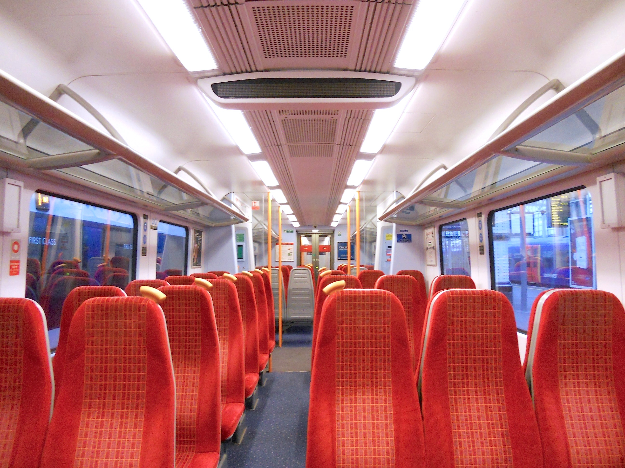 The interior of the Standard Class accommodation aboard a Class 450